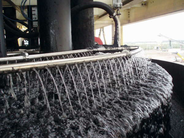 The froth washing ring of a Jameson Cell being used for coal fines froth flotation.